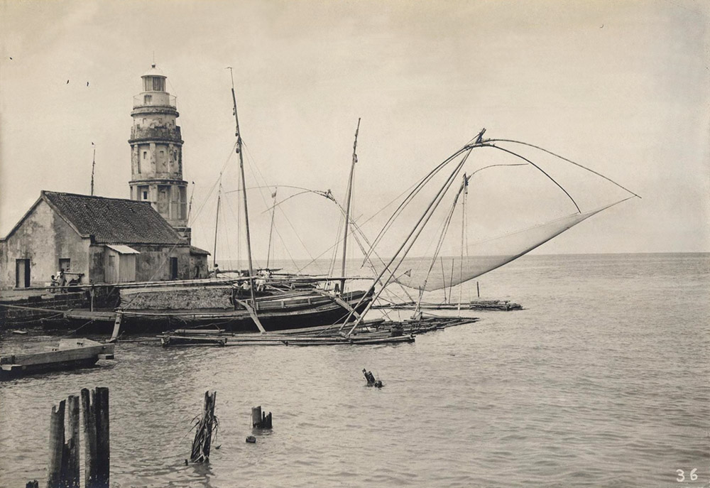 The Pasig River Lighthouse at the mouth of Pasig River with fishing boats docked along including a Salambaw (center), a traditional Filipino fishing bamboo raft with a large fish net balanced in front.